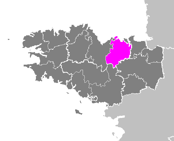 Maps of arrondissements and cantons of France: Arrondissement de Dinan.PNG